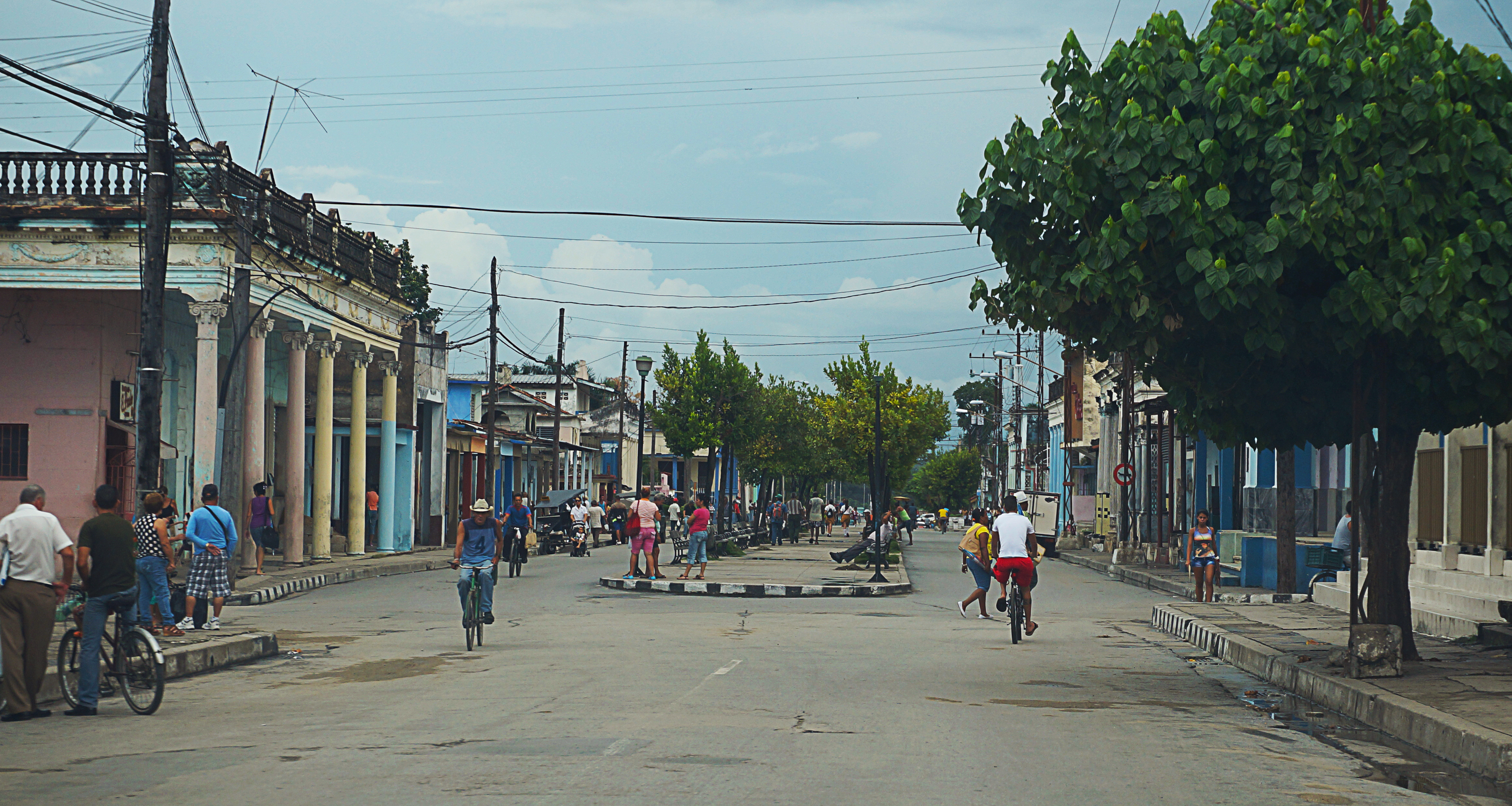 A central road in Cumanayagua, Cienfuegos Province, Cuba.